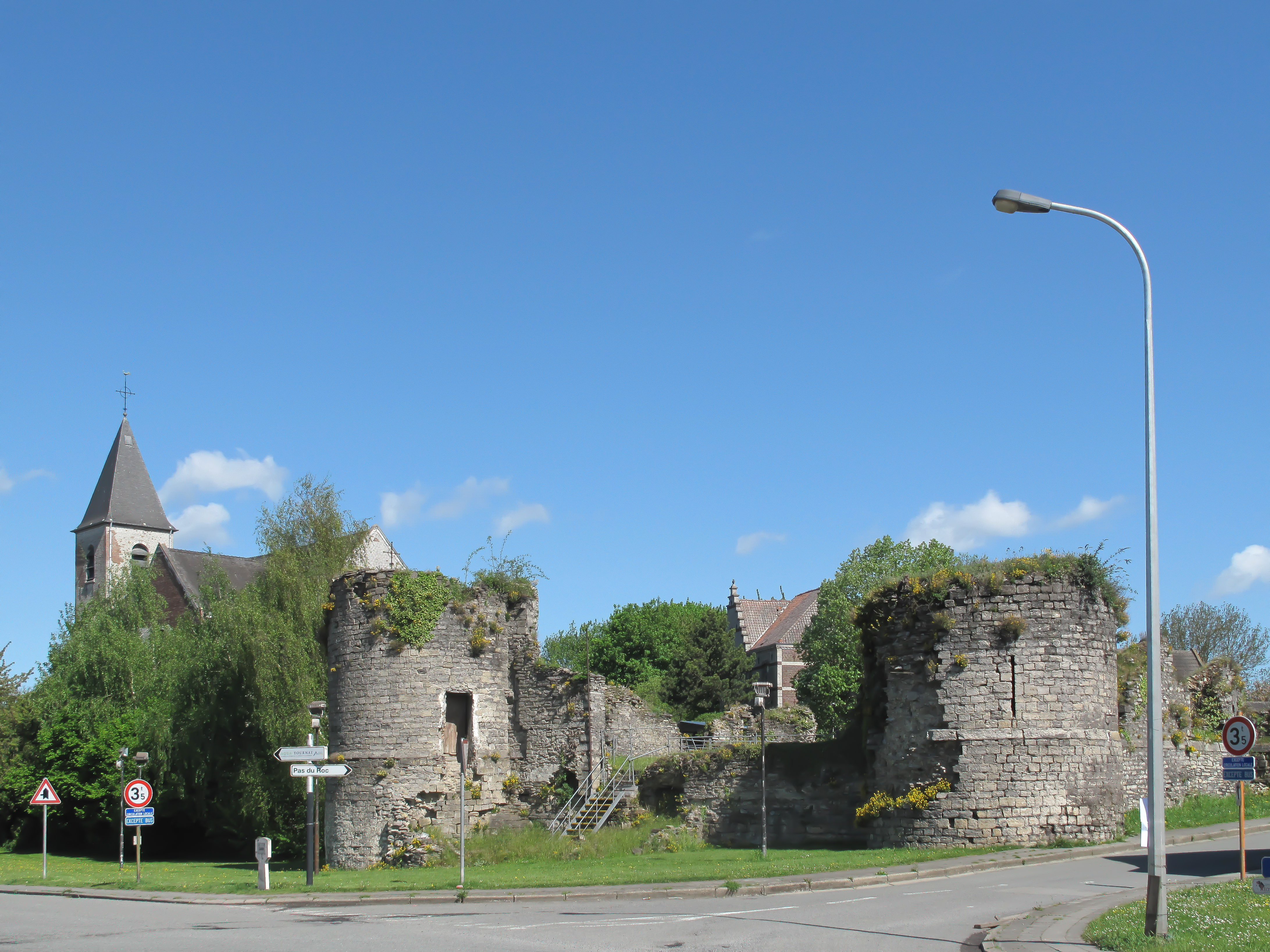 Vaulx, ruins of castle (Château de Jules César)